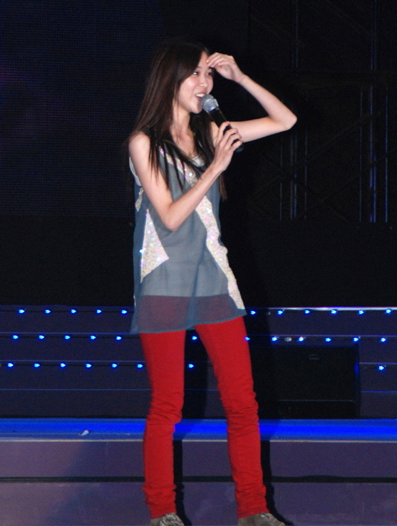 Sachi Tainaka on September 27, 2008